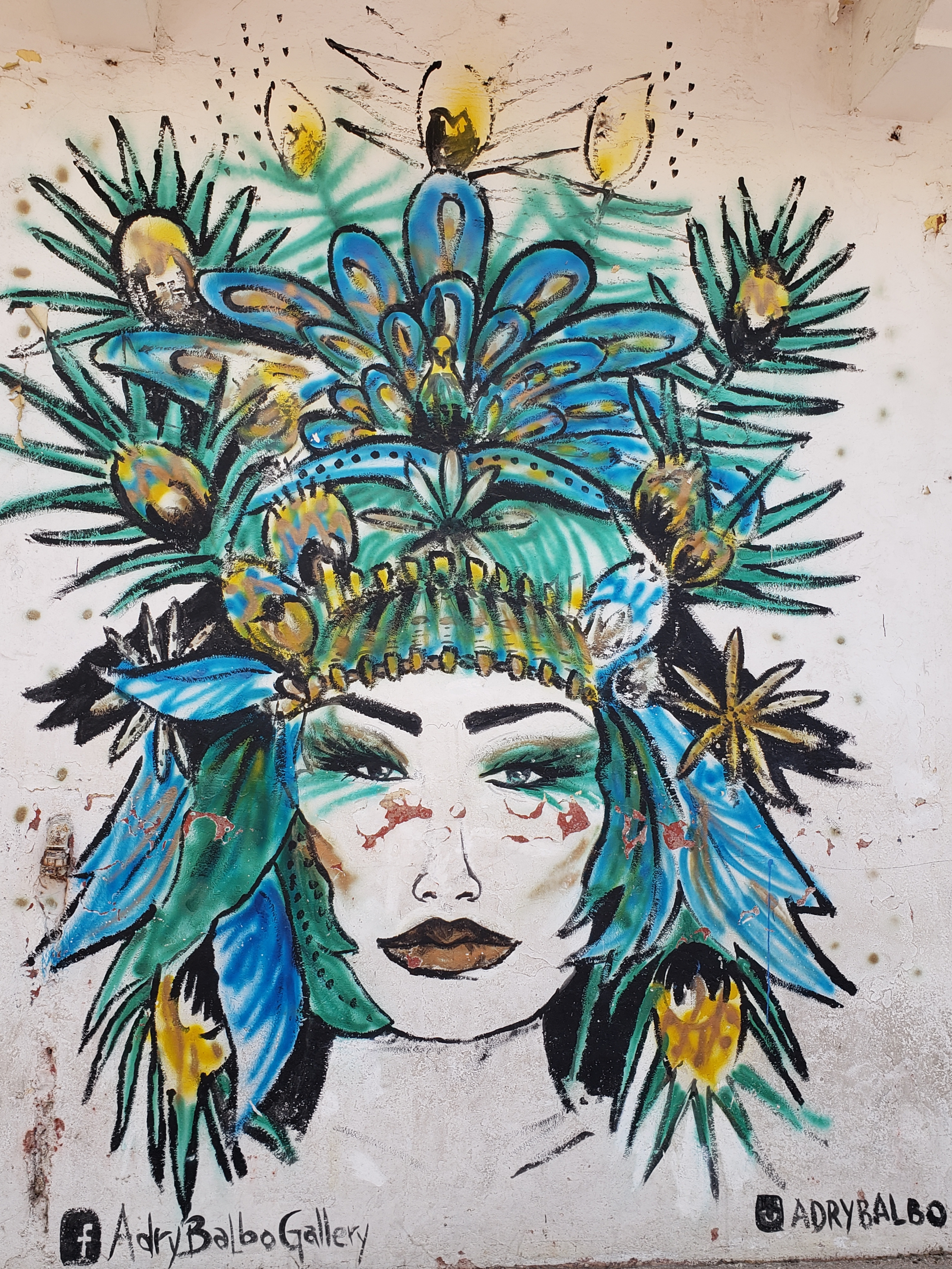 One among numerous colorful, fascinating and interesting street art work located around the old town in Panama City, Panama. The artist is @adrybalbogallery.